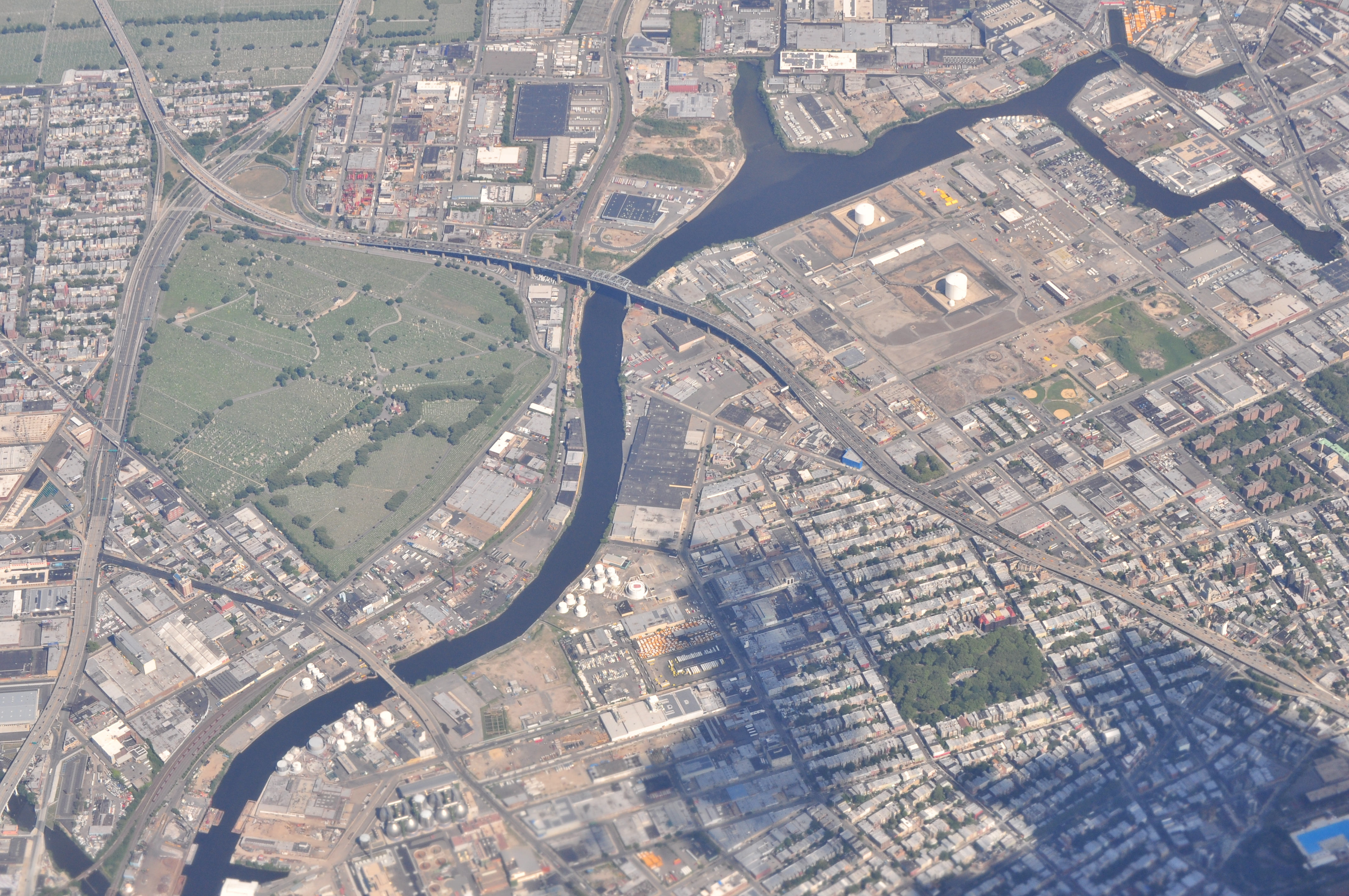 Aerial photo of Newtown Creek, Queens, NY. View looking east.